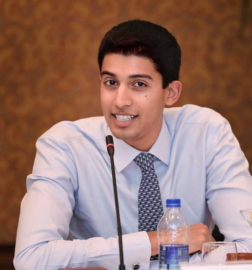 Varun Sivaram speaking at the Observer Research Foundation, New Delhi